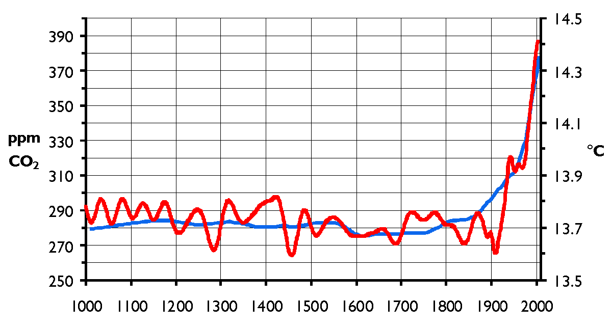 Atmospheric carbon dioxide concentration and mean global temperature during the past 1000 years. Carbon dioxide levels (blue line, left-hand axis) are given in parts per million (volume), temperatures (red line, right-hand axis) in degrees centigrade.